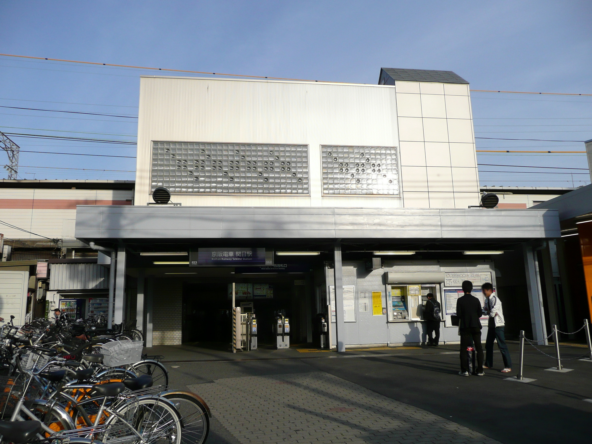 Keihan Electric Railway,Sekime Station. / 京阪電気鉄道関目駅